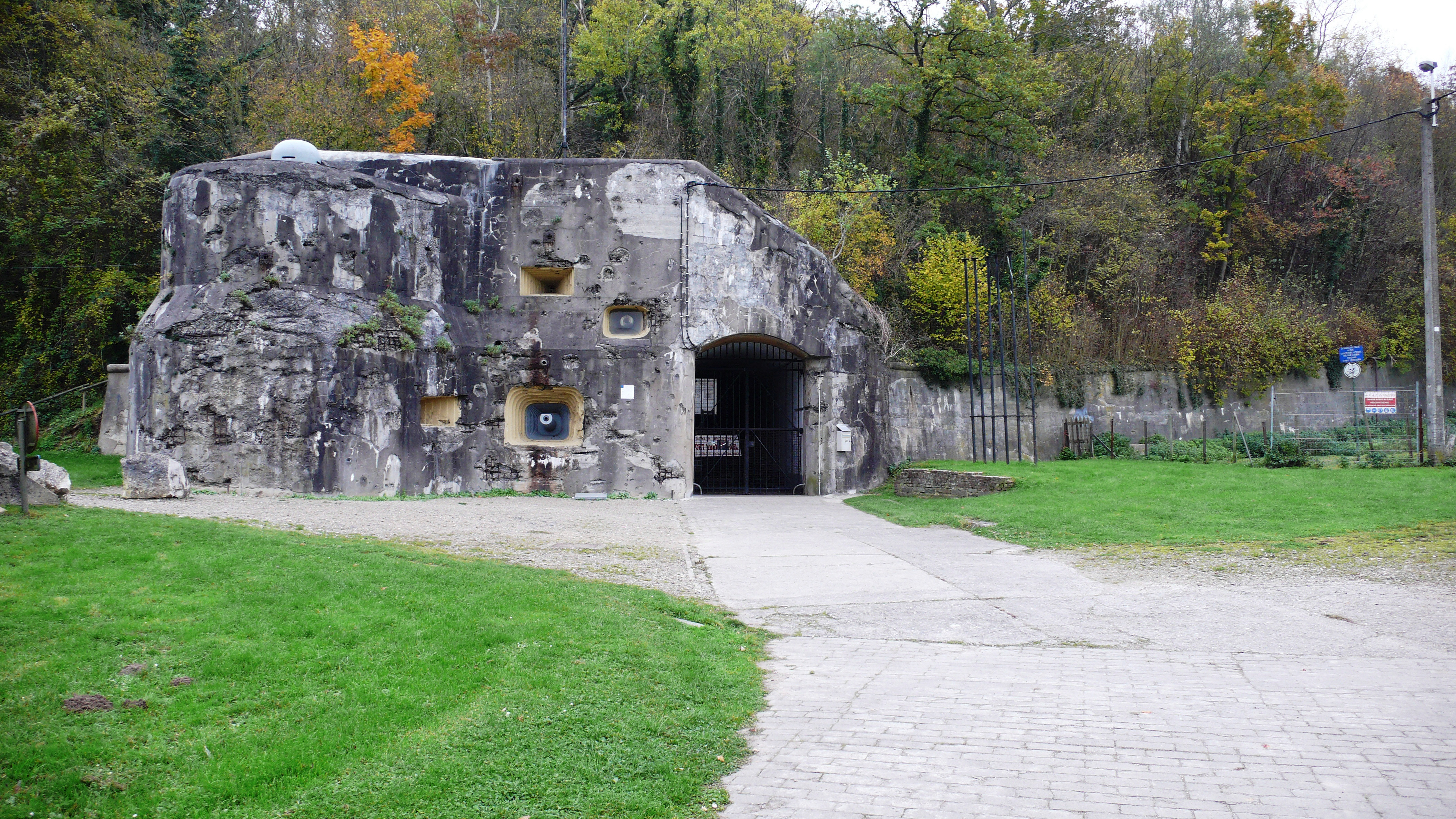 Fort Eben-Emael (Belgium)